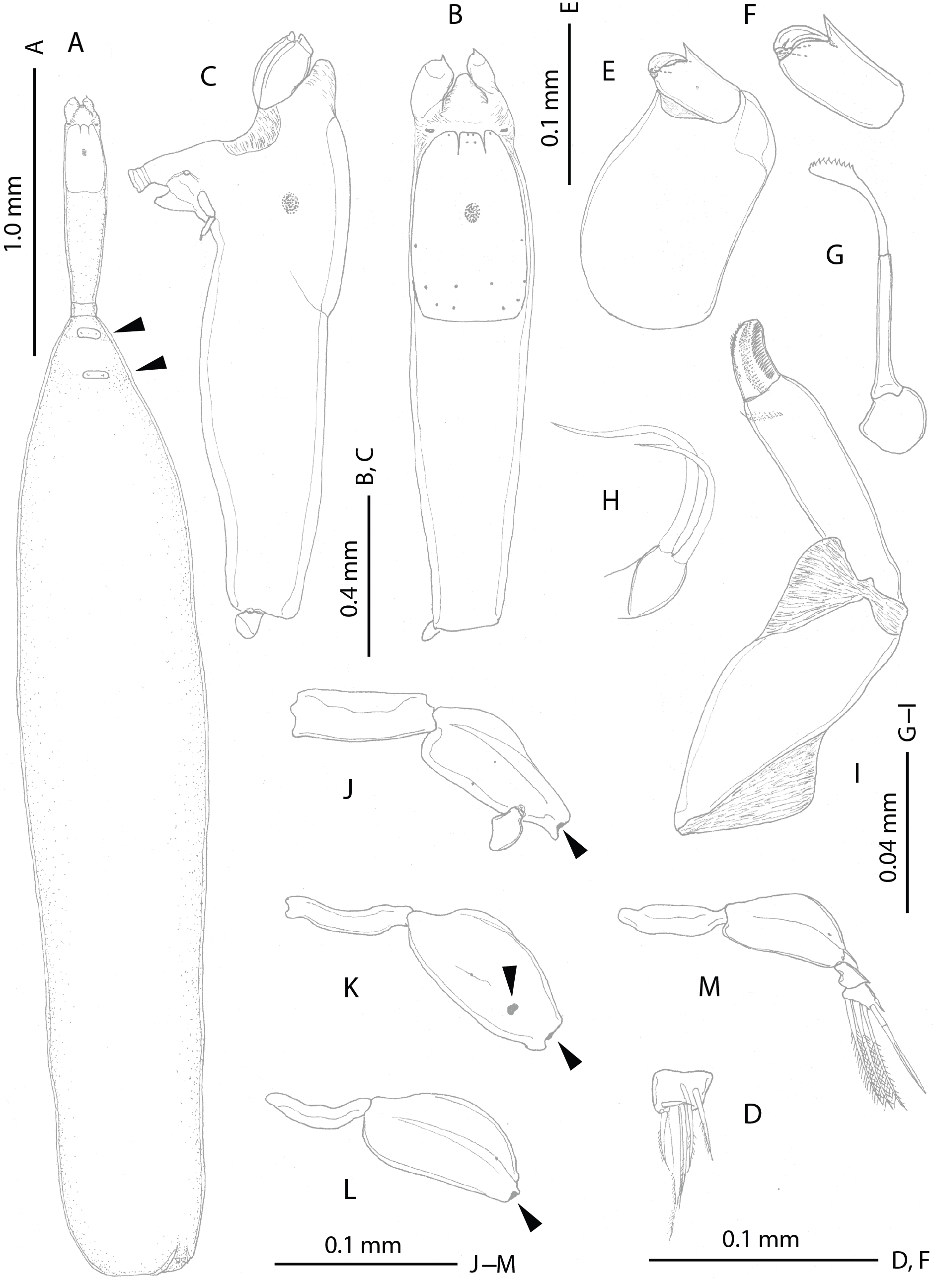 Figure 2 of paper Peniculus hokutoae Ohtsuka, Nishikawa & Boxshall, 2018, holotype female. (A) Habitus, dorsal view, posterior part twisted, tergites on third and fourth pedigerous somites arrowed; (B) Cephalothorax, dorsal view; (C) Cephalothorax, lateral view; (D) Caudal ramus; (E) Antenna; (F) Terminal segment of antenna; (G) Mandible; (H) Maxillule; (I) Maxilla; (J) Leg 1, anterior view; (K) Leg 2, anterodistal view; (L) Leg 3, anterior view; (M) Leg 4, anterior view. Arrows in (J) to (L) indicate bases of rami.